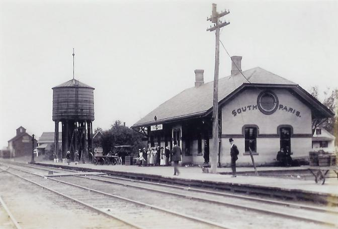 Railroad station, South Paris, Maine. The passenger depot was built in 1883 by the Grand Trunk Railway.